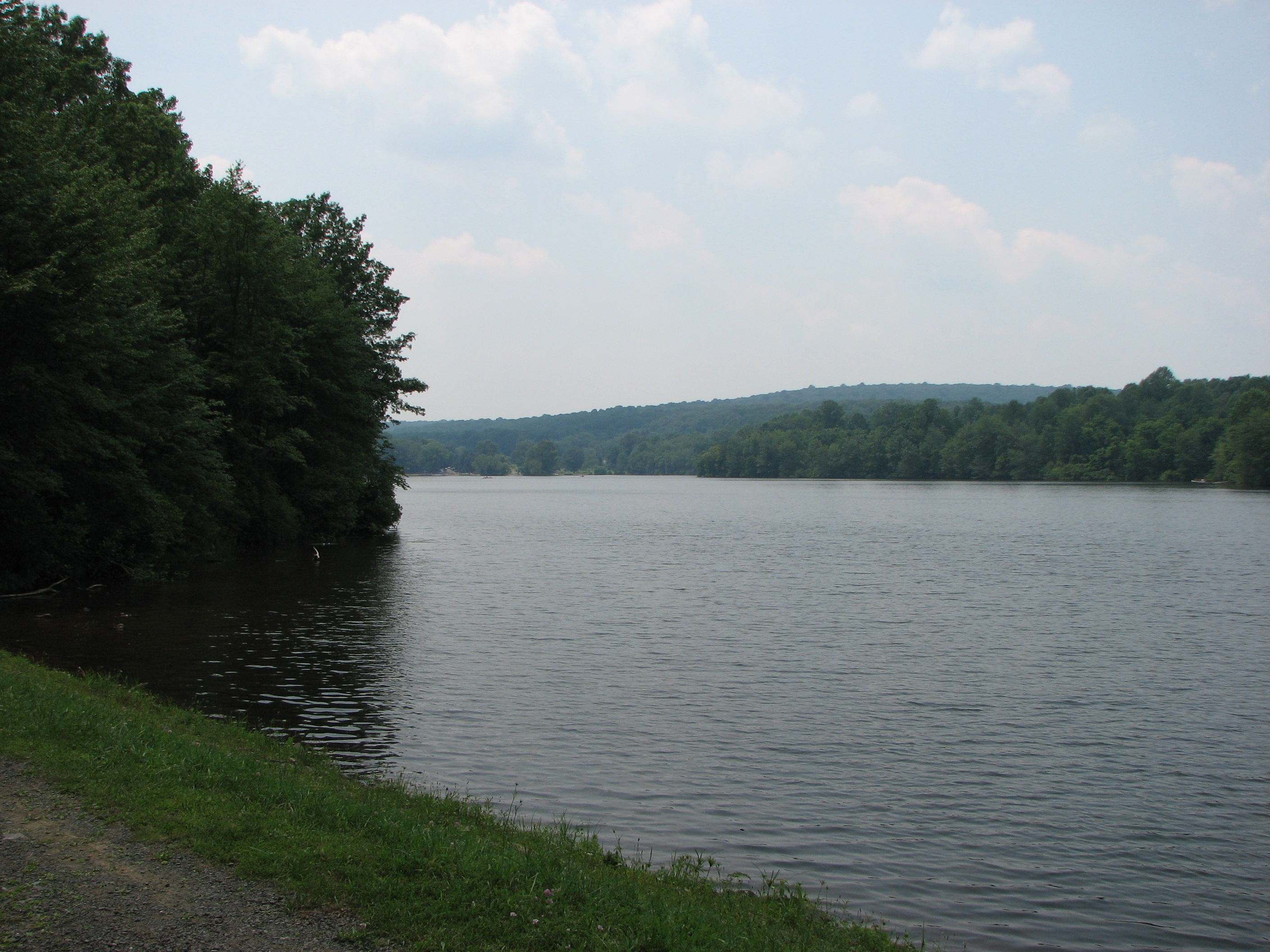 Looking northwest over Hopewell Lake in French Creek State Park.